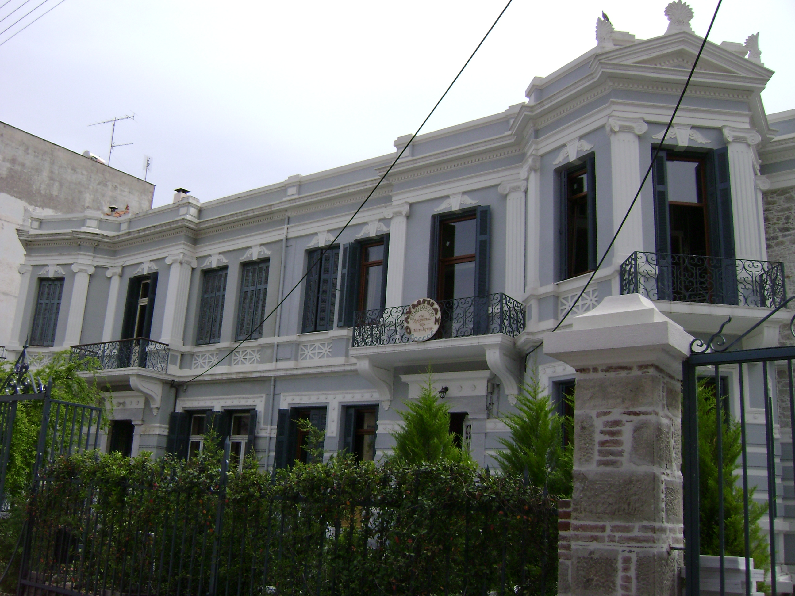 Tween houses, the right one is the small Hotel Olympias, To Archontiko tis Mytilinis on E.Vostani street in Mytilini.